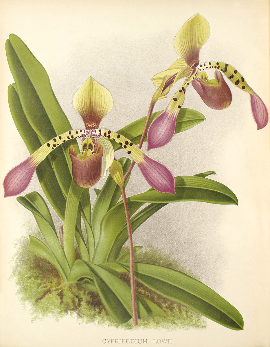 Paphiopedilum lowii